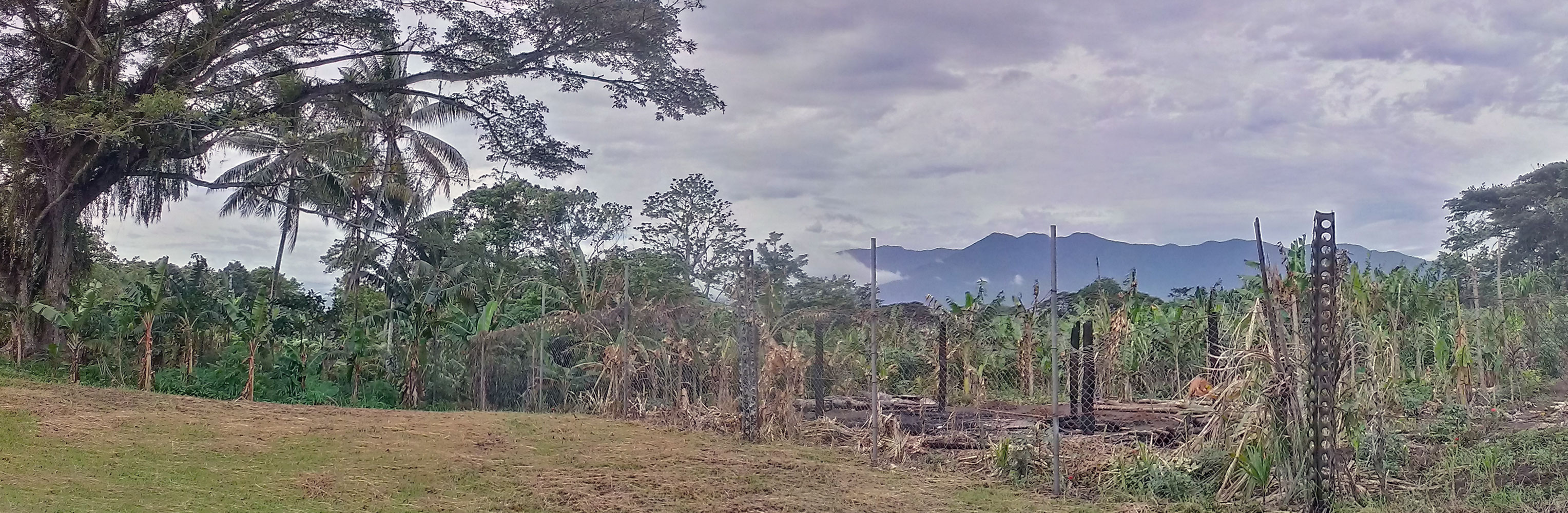 View facing West on foothills of Atzera Range. Mount Shungol in background